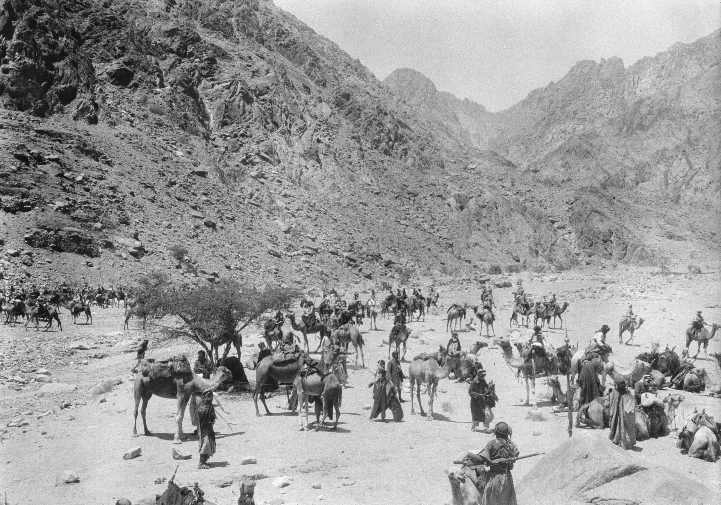 T E Lawrence and the Arab Revolt 1916 - 1918 In Wadi Itm near Resafe while discussing the terms of the Turkish surrender.